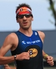 Roger Roca Dalmau during 2010 Spanish Duathlon Championchip.